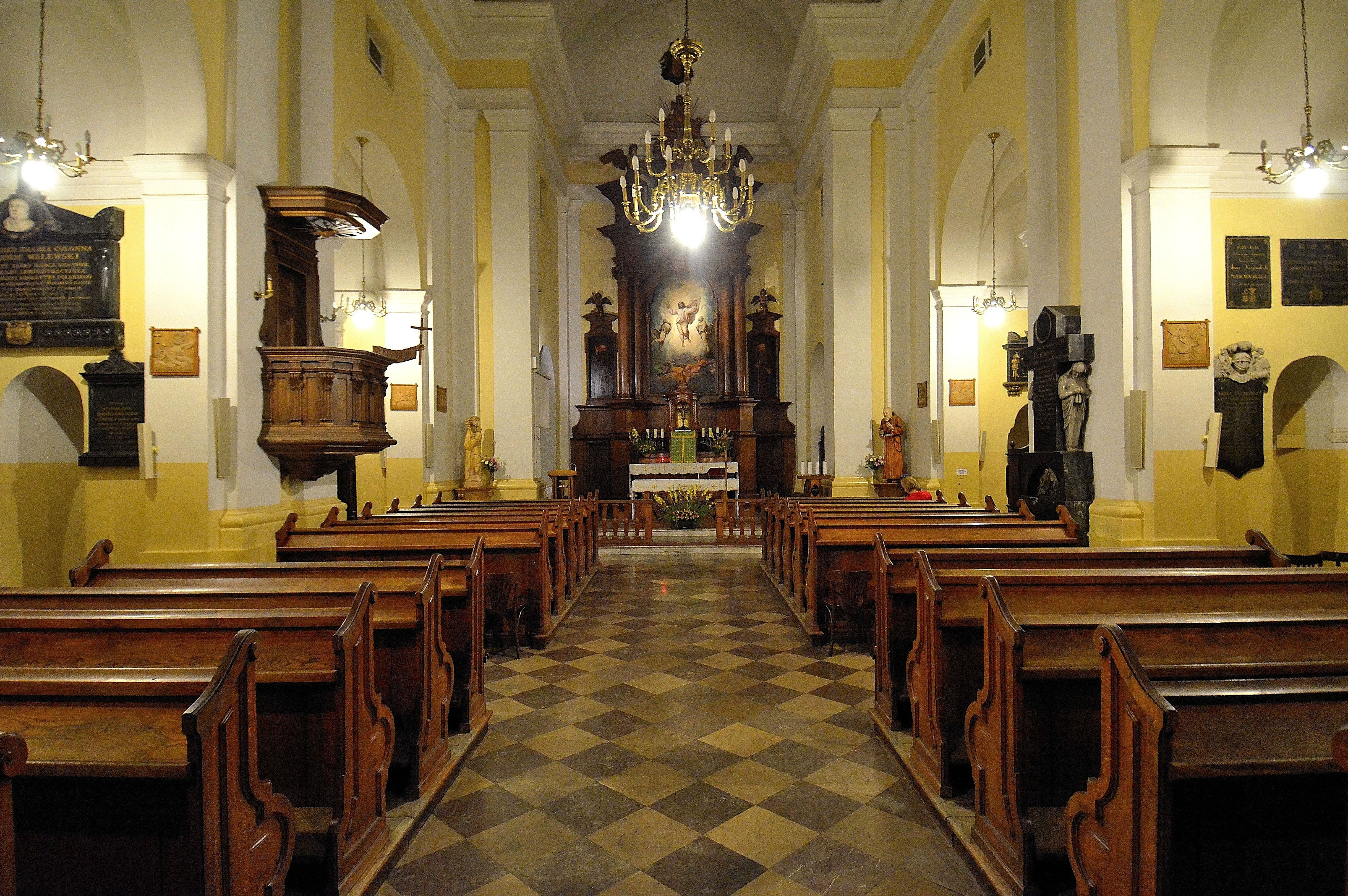 Interior of the Capuchin Church of the Trasfiguration in Warsaw (listed in the Register of Historic Monuments on 1.07.1965, reference no. 300)